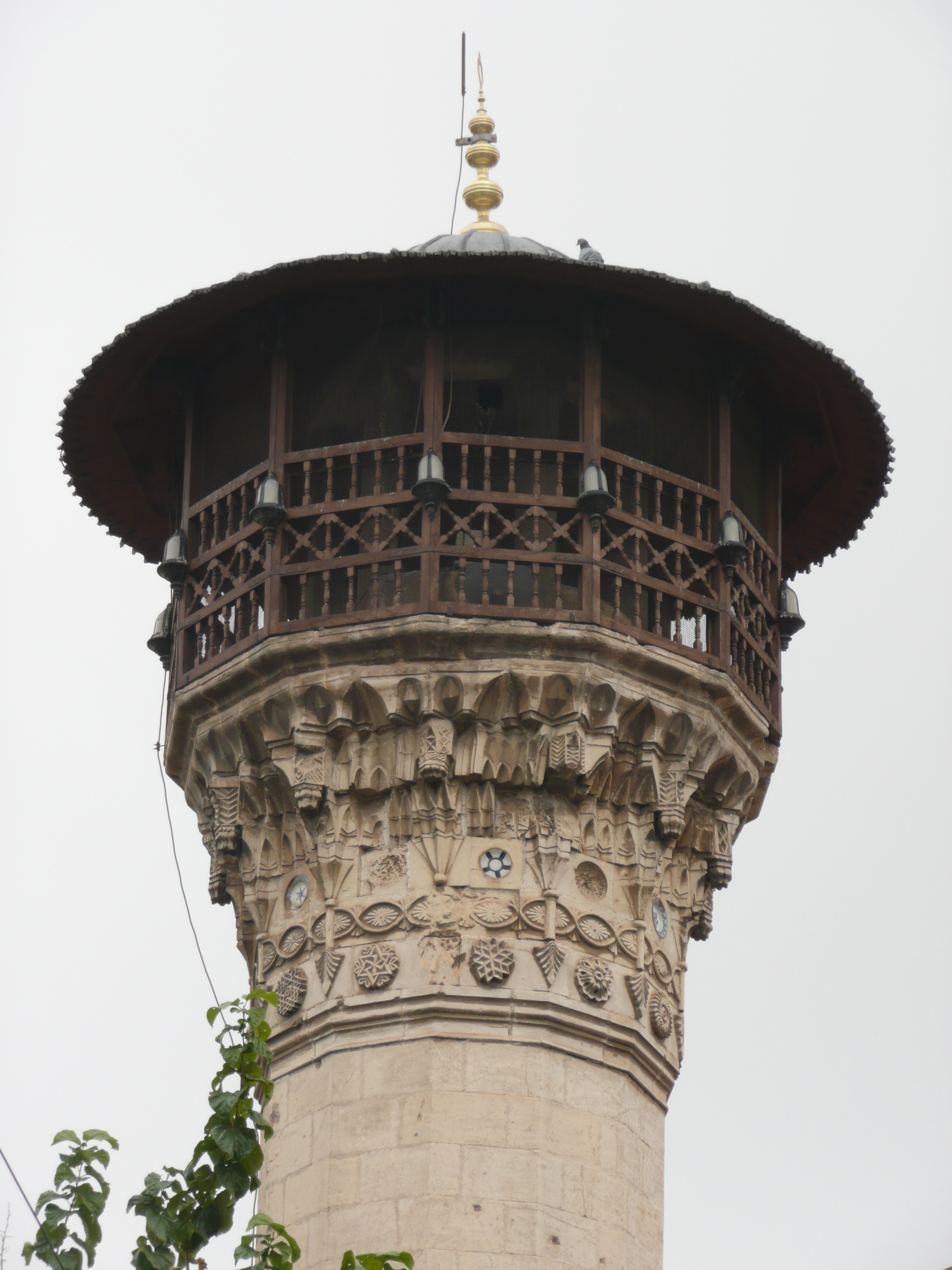 Photographs from Gaziantep